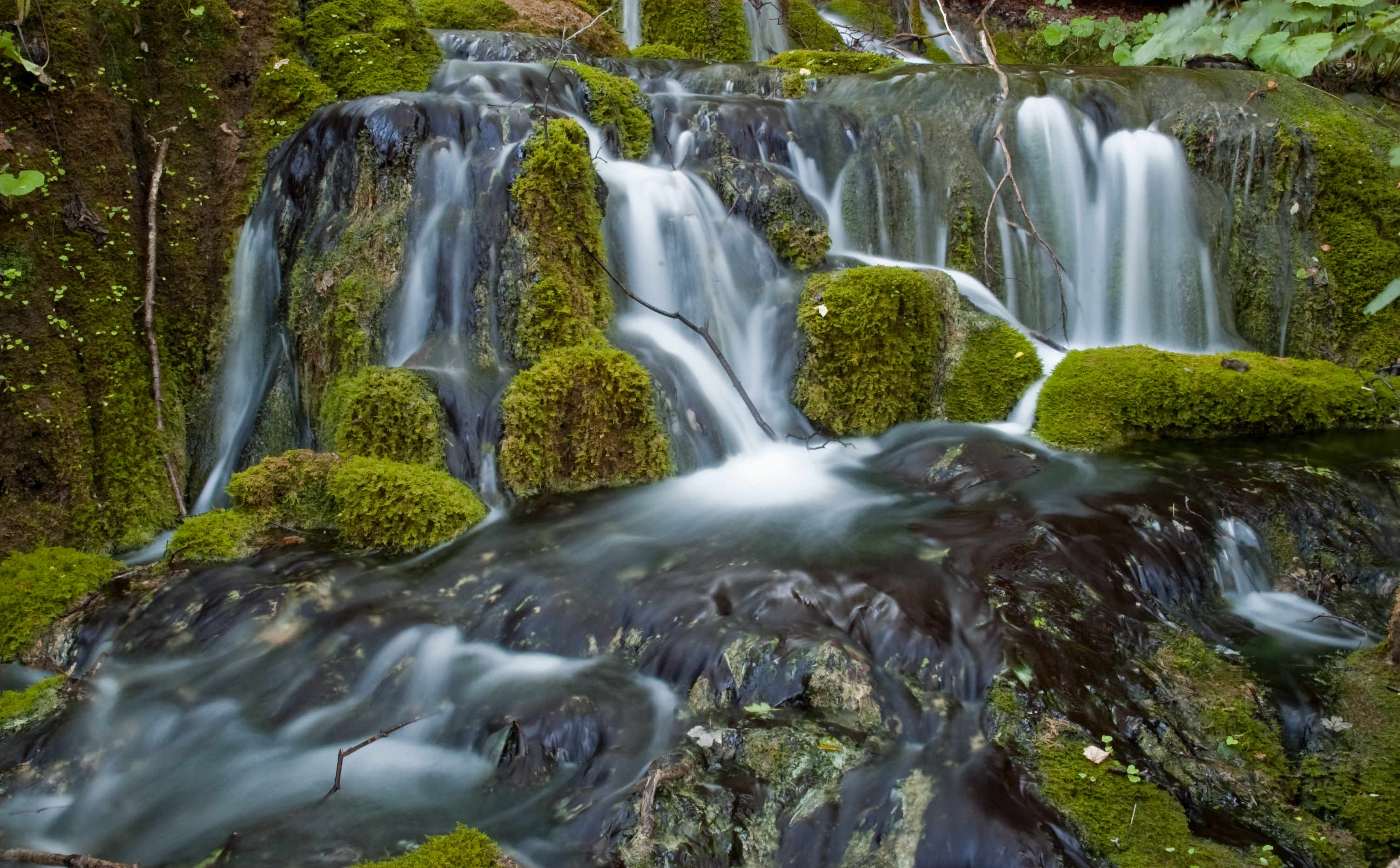 Plitvice Lakes National Park